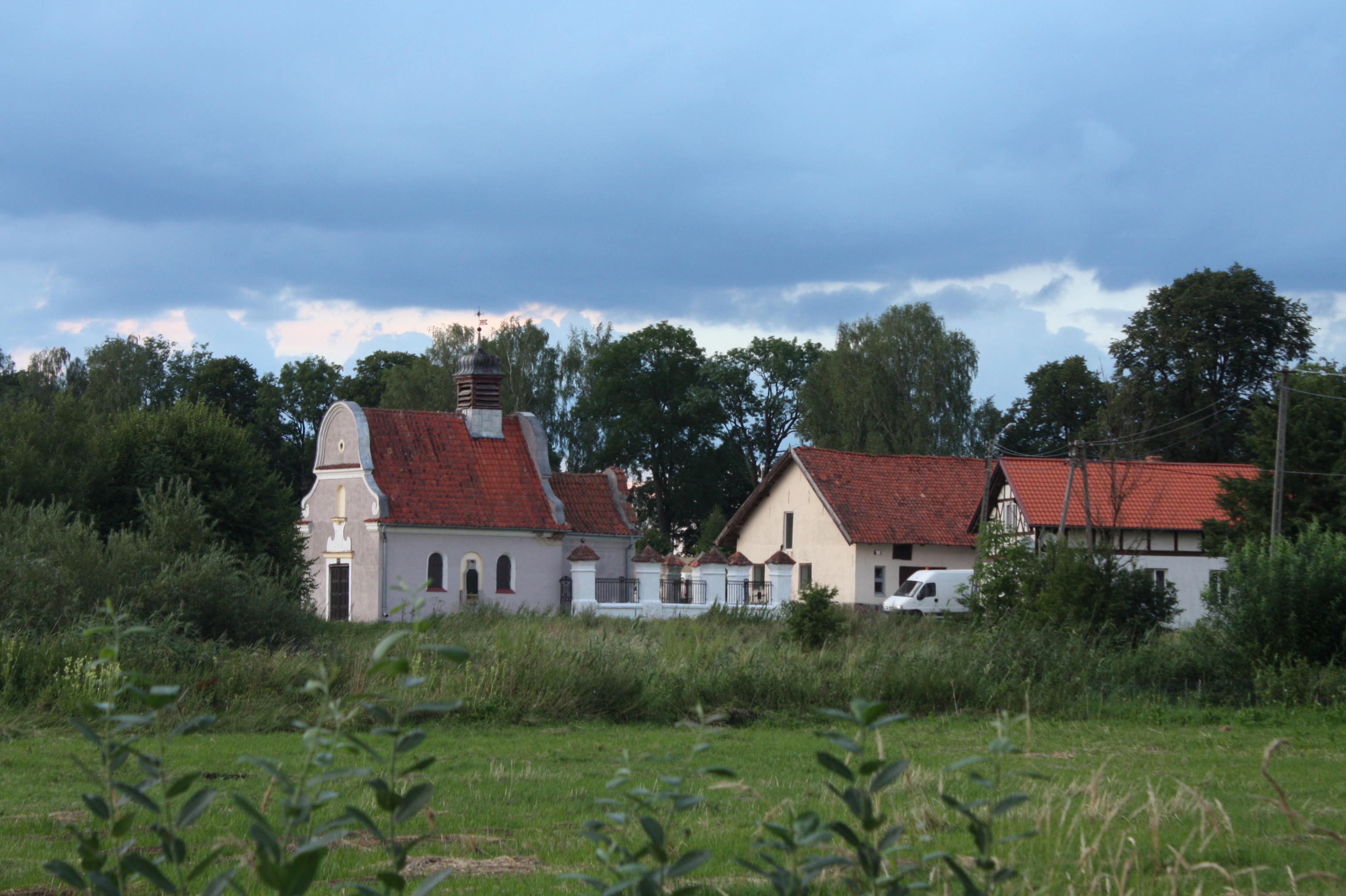 This photo of Warmian-Masurian Voivodeship was taken during Wikiexpedition 2012 set up by Wikimedia Polska Association. You can see all photographs in category Wikiekspedycja 2012. The making of this document was supported by Wikimedia Polska.